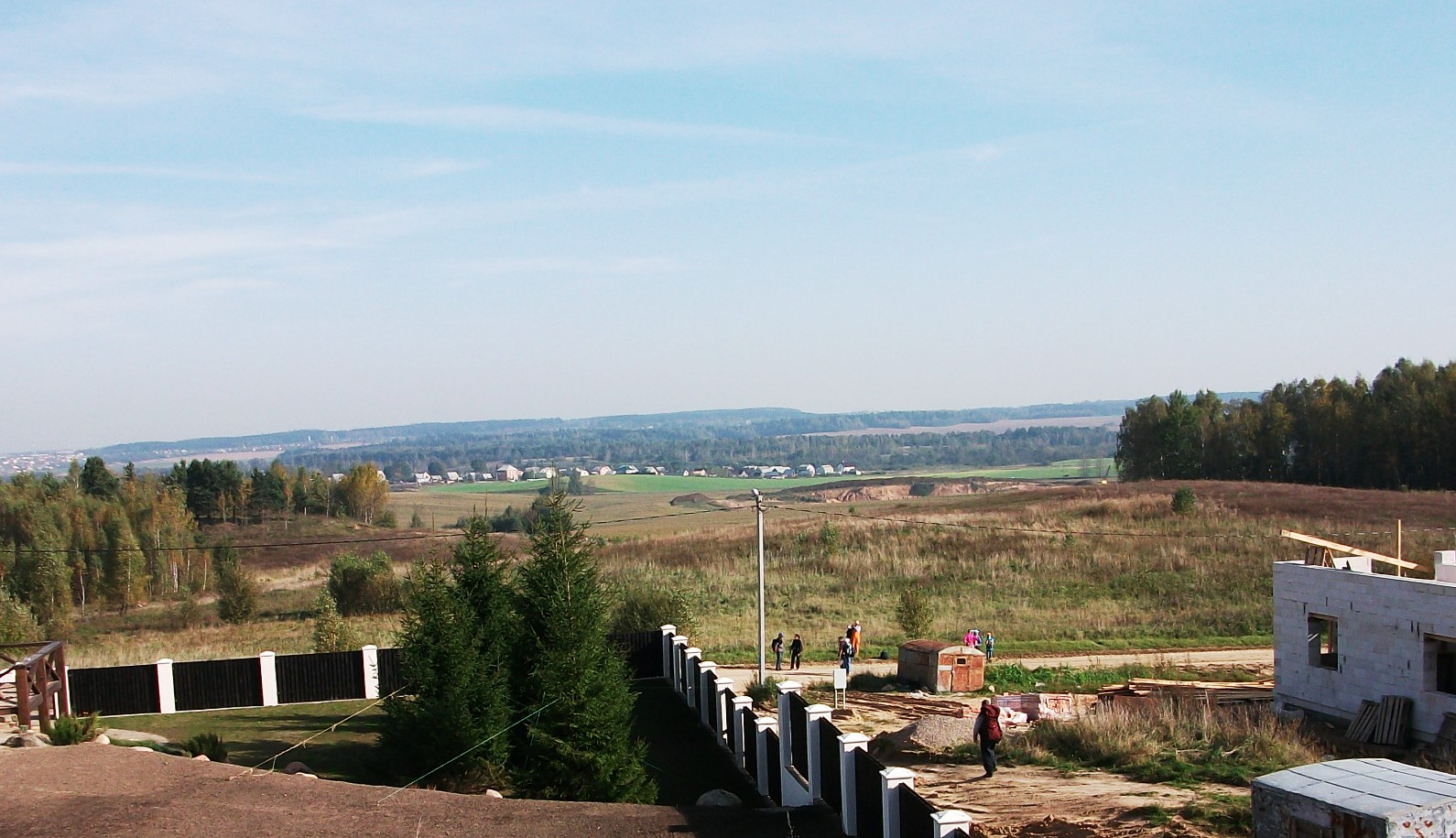 Landscape of Minsk Upland. Image taken in Dauzhany village, Valozhyn disrict